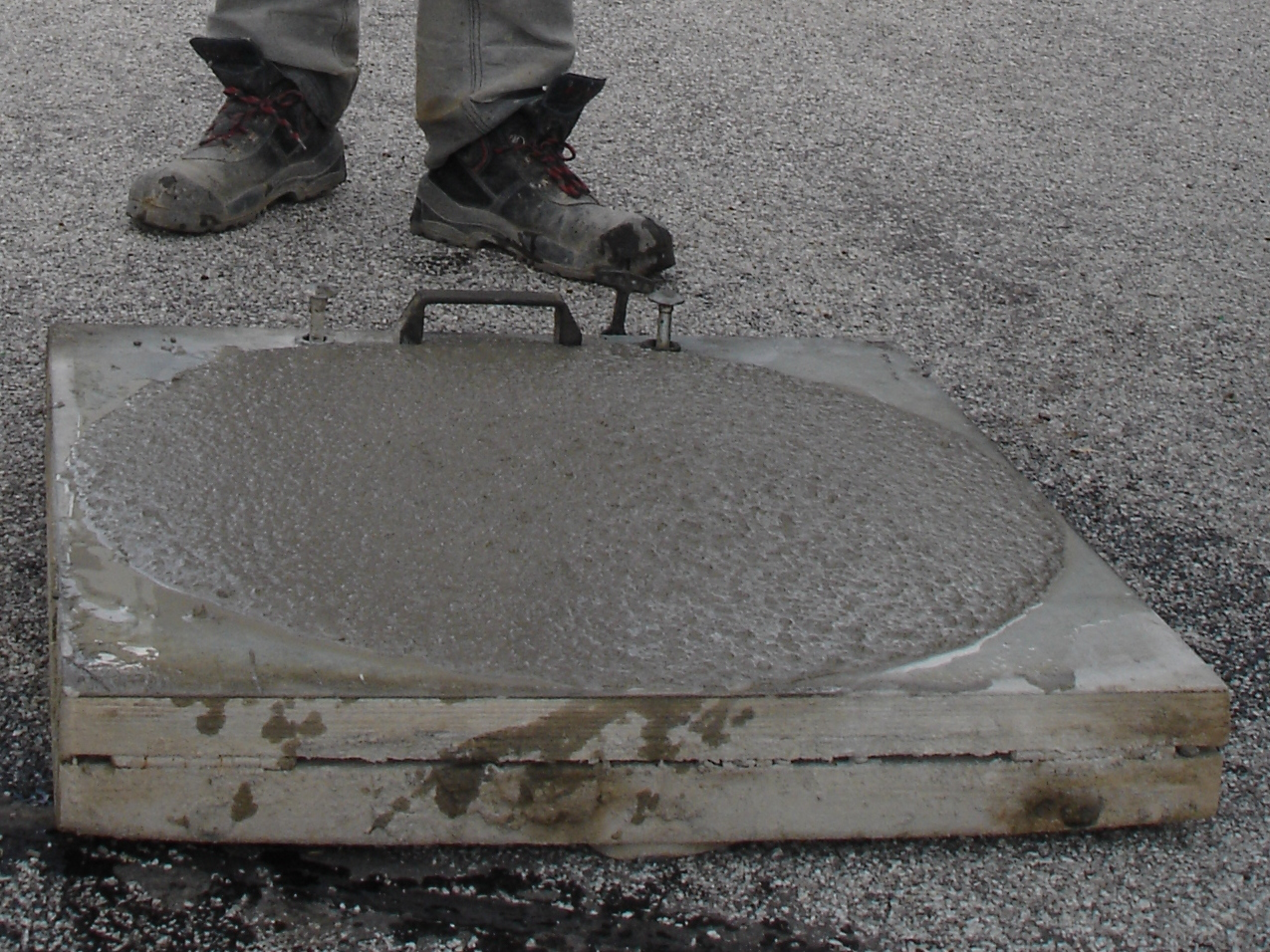 Flow test shortly after lifing the funnel